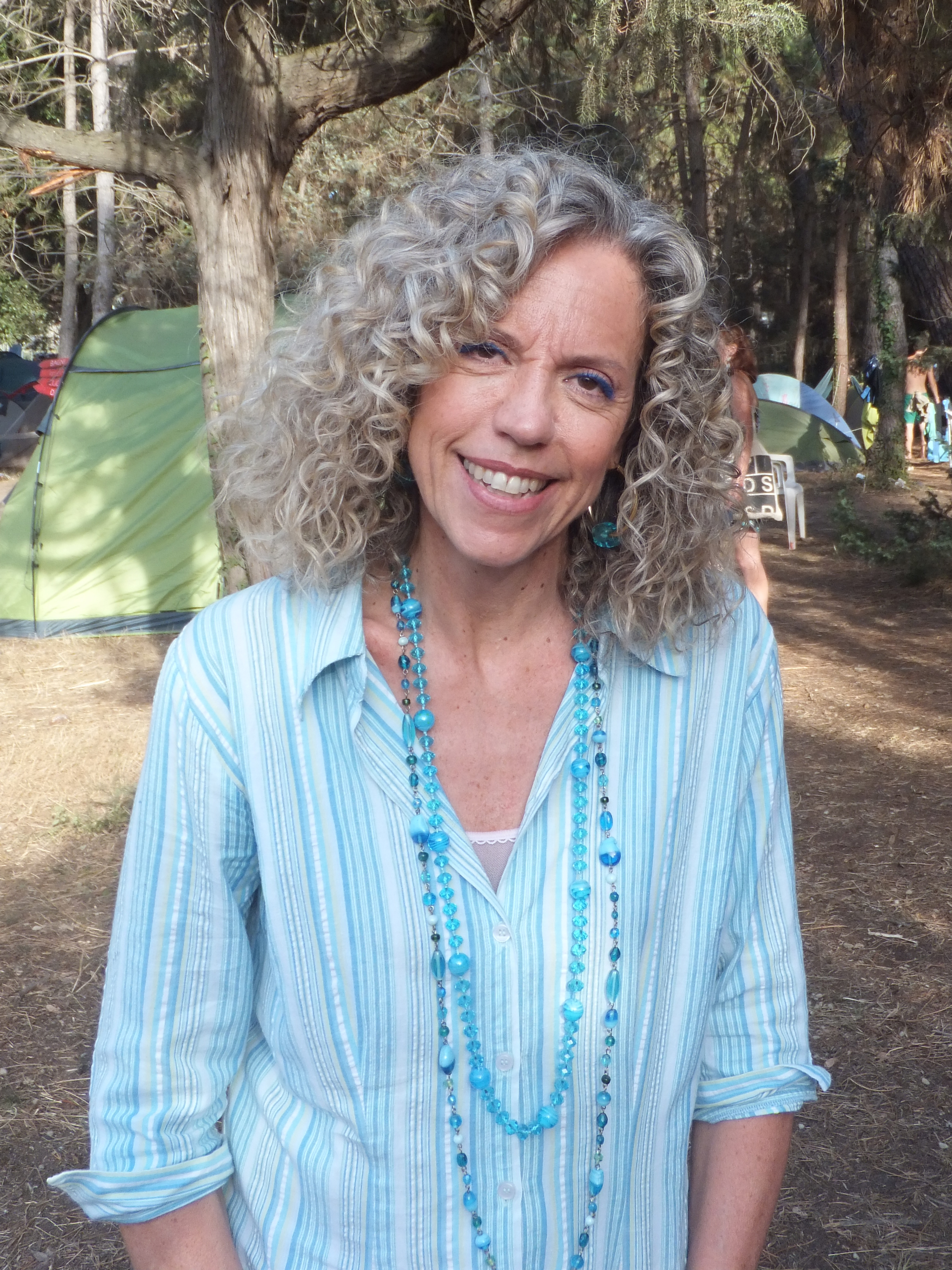 Monica Cirinnà after a debate at Revolution Camp 2016, Marina di Massa